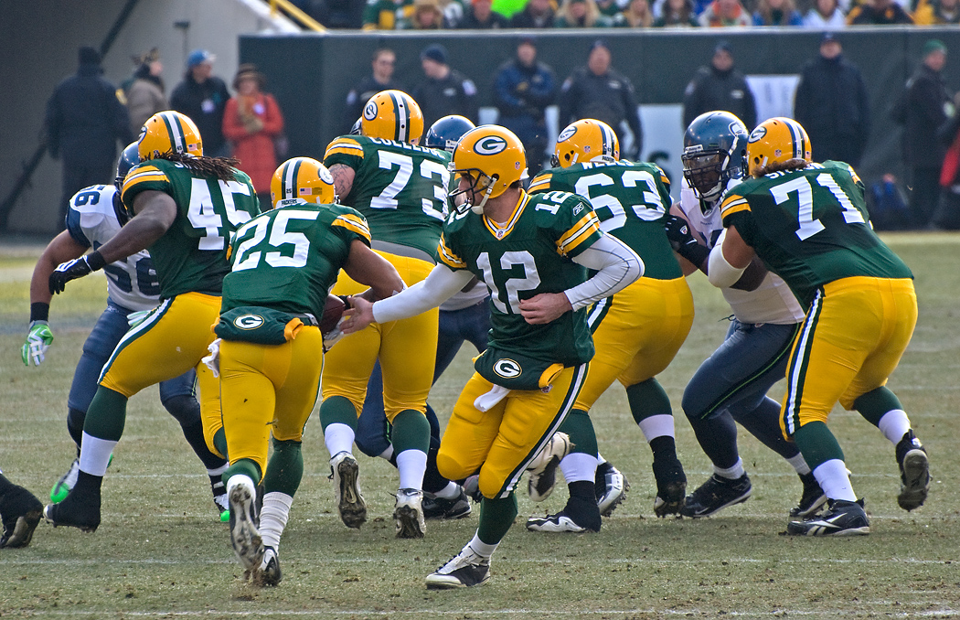 Seattle vs. Green Bay • December 27, 2009 at Lambeau Field in Green Bay, Wisconsin.